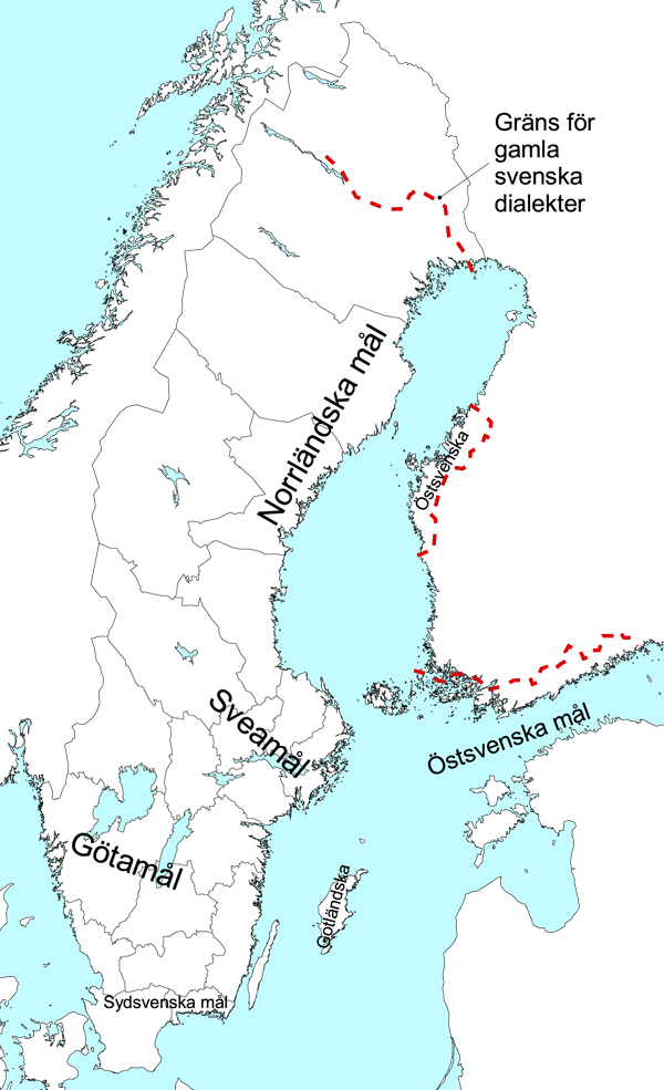 The six traditional areas of Swedish dialect groups.